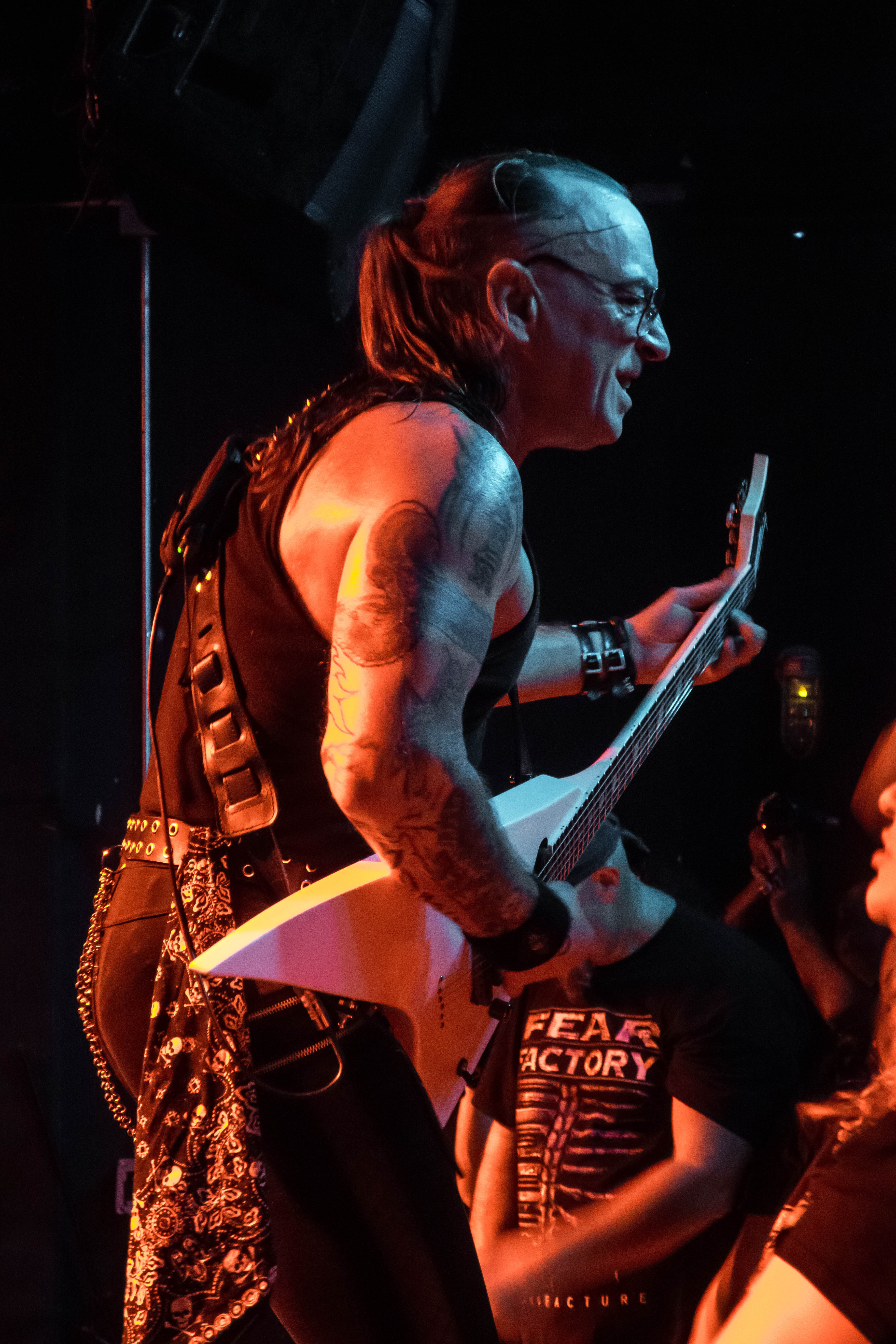 Venom Inc. performing at Saint Vitus Bar (Brooklyn, New York), October 3, 2017. Venom Inc. performing at Saint Vitus Bar (Brooklyn, New York), October 3, 2017.